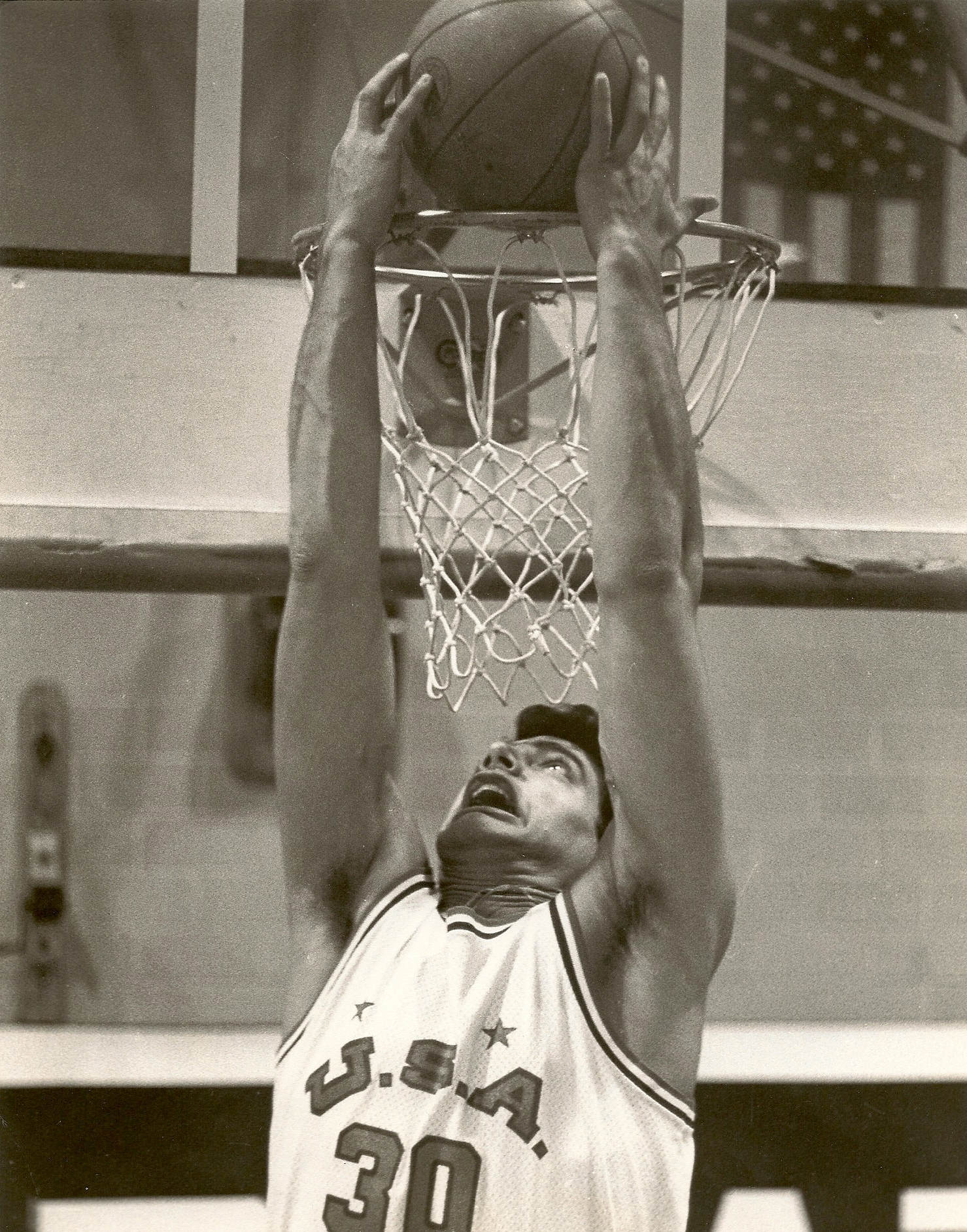 Chris Roupas 1982 USA-Ahepa AllStar reverse dunk.